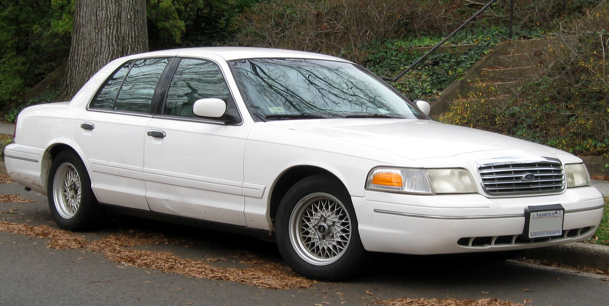 1998-2002 Ford Crown Victoria photographed in Washington, D.C., USA.